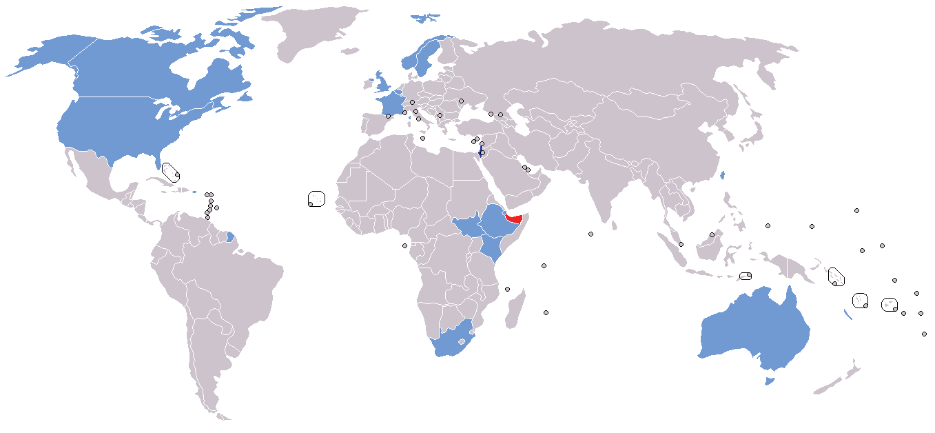 Map of diplomatic missions of Somaliland Somaliland Somaliland embassy (none) Somaliland representative office Somaliland embassy, non-resident (none) Disputed region